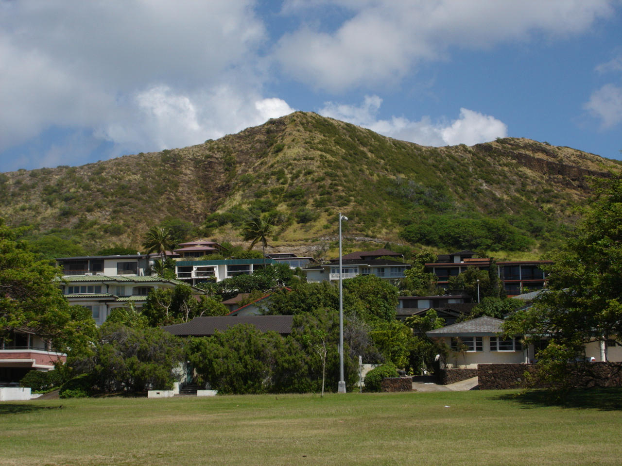 I shot the picture myself. It's an upscale residential neighborhood at the foot of Diamond Head in Honolulu.